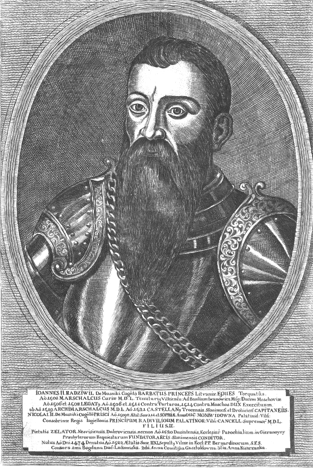 Jan Radziwiłł Great Marshal of Lithuania